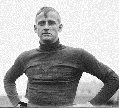 Athlete Charles Dvorak Chicago Daily News negatives collection, SDN-001437. Courtesy of the Chicago Historical Society. Taken in 1903 (